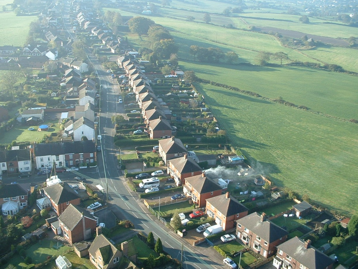 High Street and Sands Road